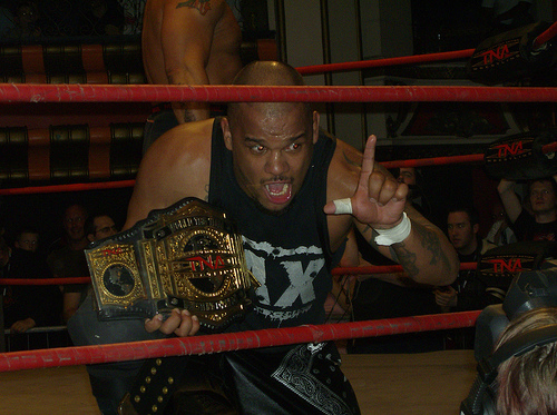 Homicide as TNA Tag Team Champion